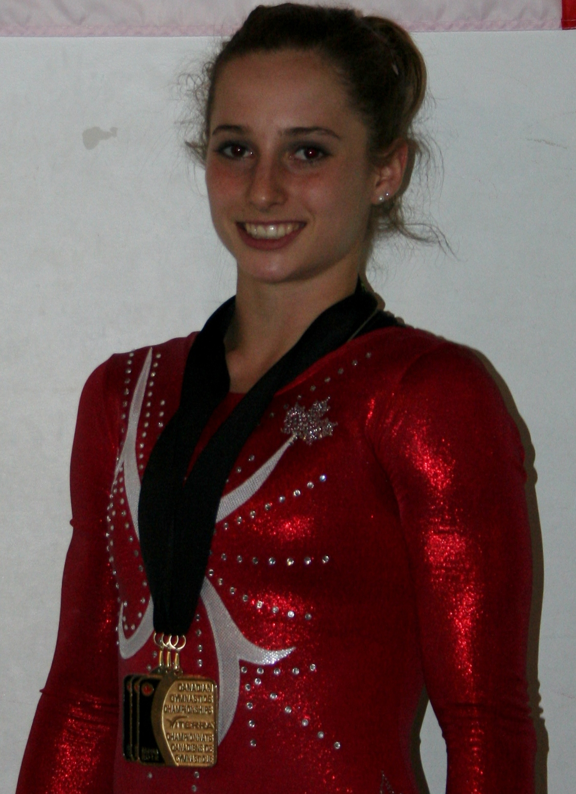 Close up photo of Kristina Vaculik, member of 2012 Canadian Women's Artistic Gymnastics Olympic Team